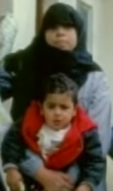 The Khadr family, in an early photograph. The family has agreed to license this photo under CC-BY